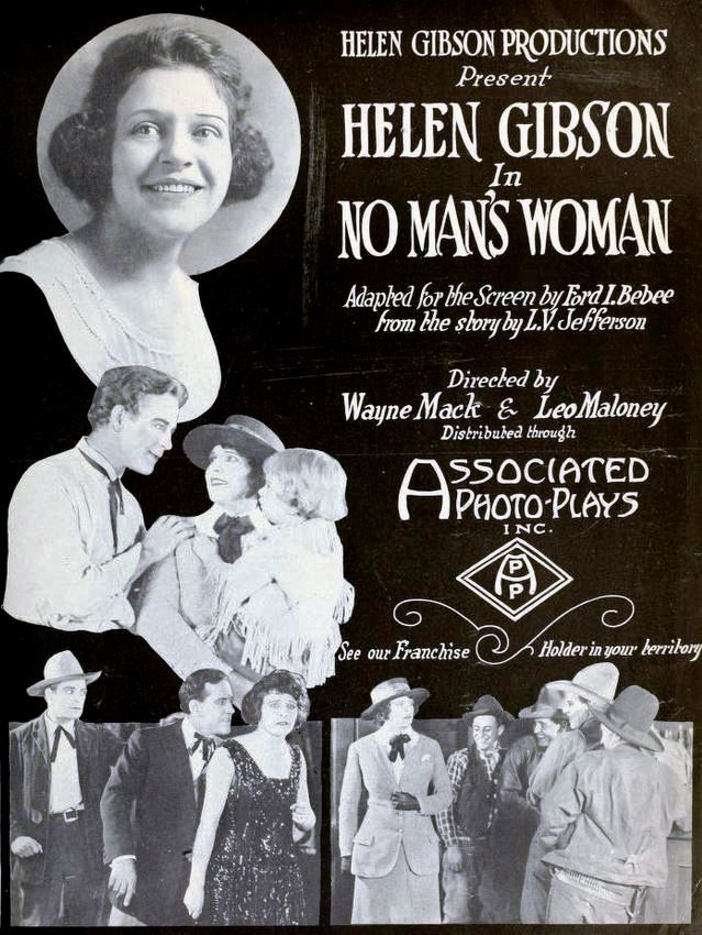 Advertisement for the American western film No Man's Woman (1921) with Helen Gibson, Edward Coxen, and Leo D. Maloney, on the inside back cover of the January 16, 1921 Film Daily.